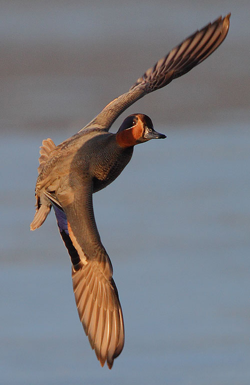 A flight of drake Teal over Loch of Kinnordy, Angus, Scotland.